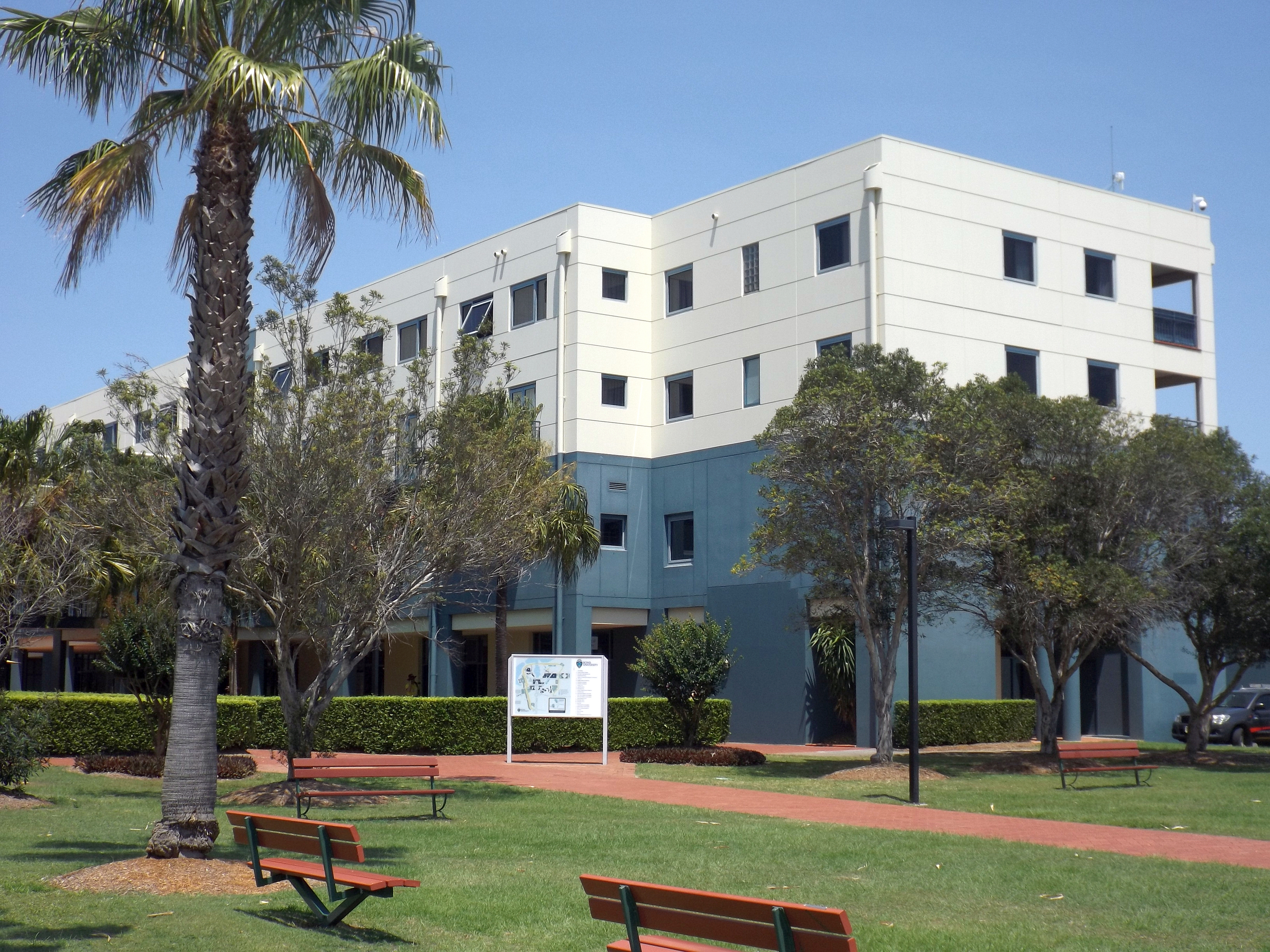 Photo of campus buildings in the east at Bond University, Robina, Gold Coast City, Queensland, Australia.